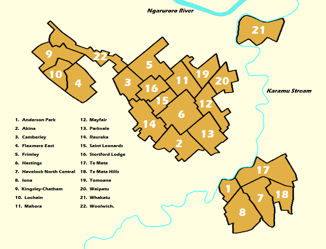 Labelled map of the 22 Suburbs that make up Hastings City, New Zealand.